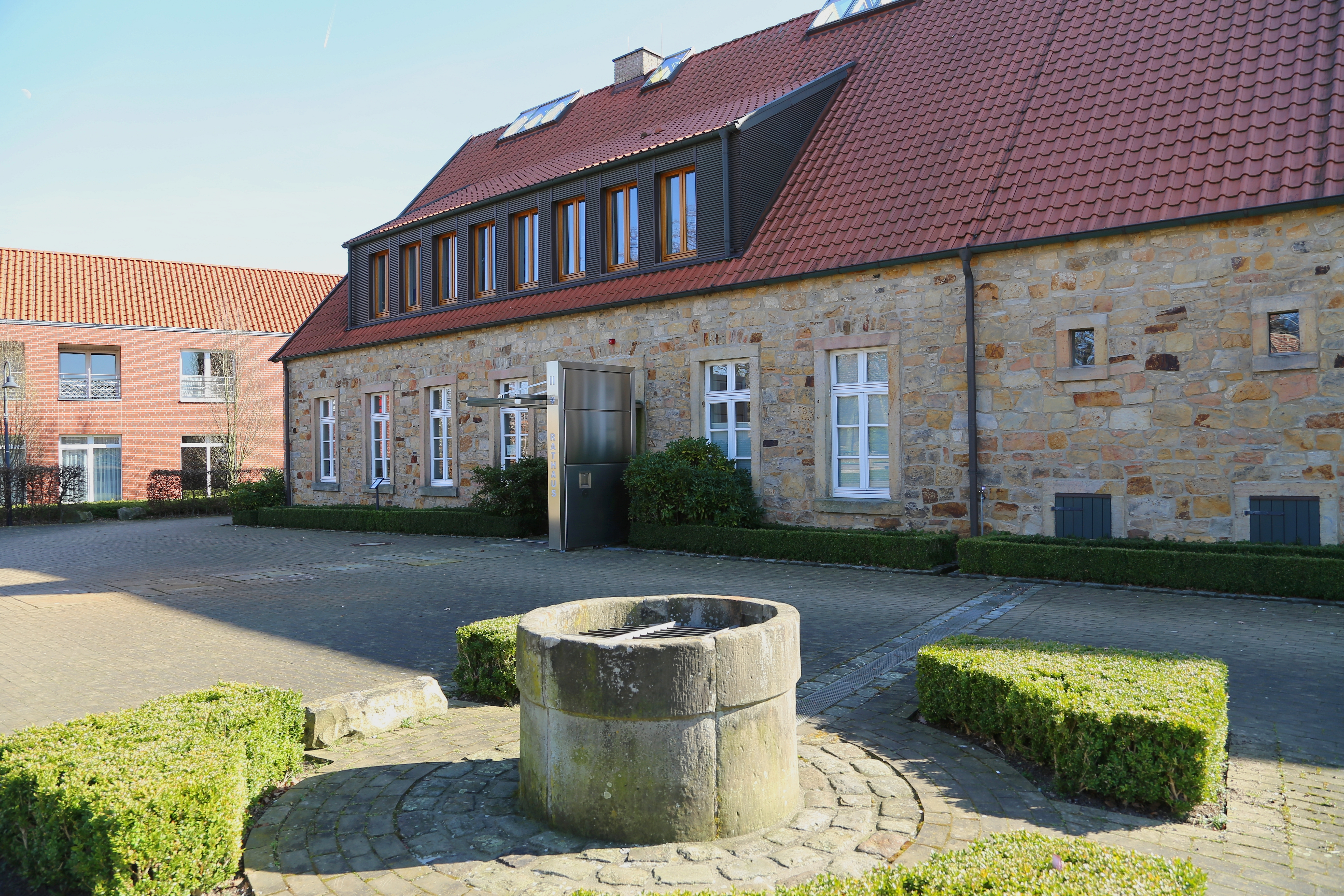 The town hall of Saerbeck, Kreis Steinfurt, North Rhine-Westphalia, Germany.